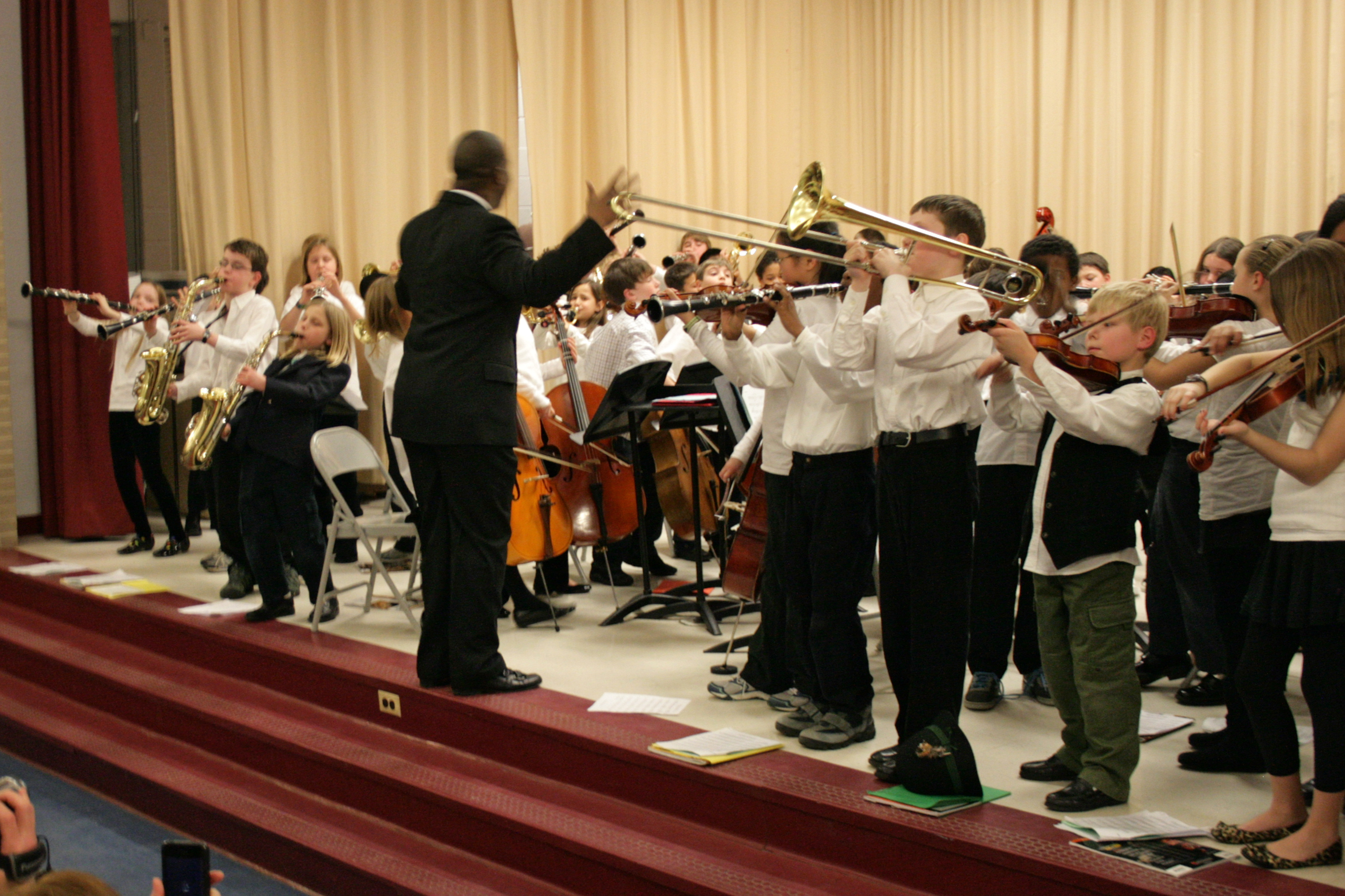 First band concert by kids